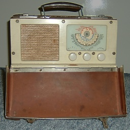 A Norwegian radio receiver, David-Andersen Radio A/S model 501 (or 511 or 521) from 1950 (or 1951 or 1952). This is a four-band (LW, MW, Maritime, SW) receiver with 4 vacuum tubes, encased in a Unica box (pressed cardboard suitcase), containing batteries for the 90 V anode voltage. Reference: NRHF, YouTube